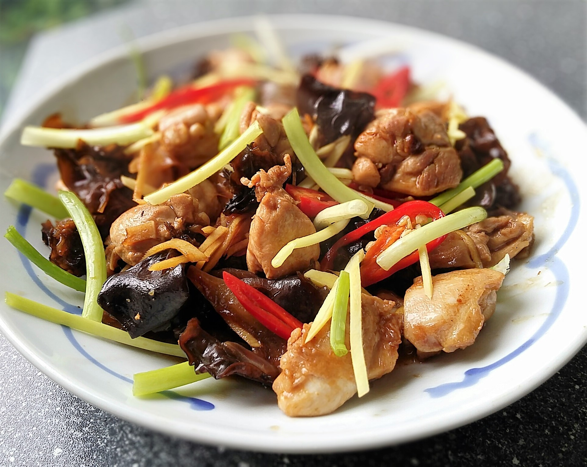 Kai phat khing (Thai script: ไก่ผัดขิง) is chicken stir-fried with ginger. It is, originally, a Chinese dish that has been adopted and modified by Thais. Ingredients for this dish are: chicken, julienned ginger, garlic, onion, spring onion, soy sauce, fish sauce, oyster sauce, white pepper, chillies, fermented soybean paste, and wood ear fungus.